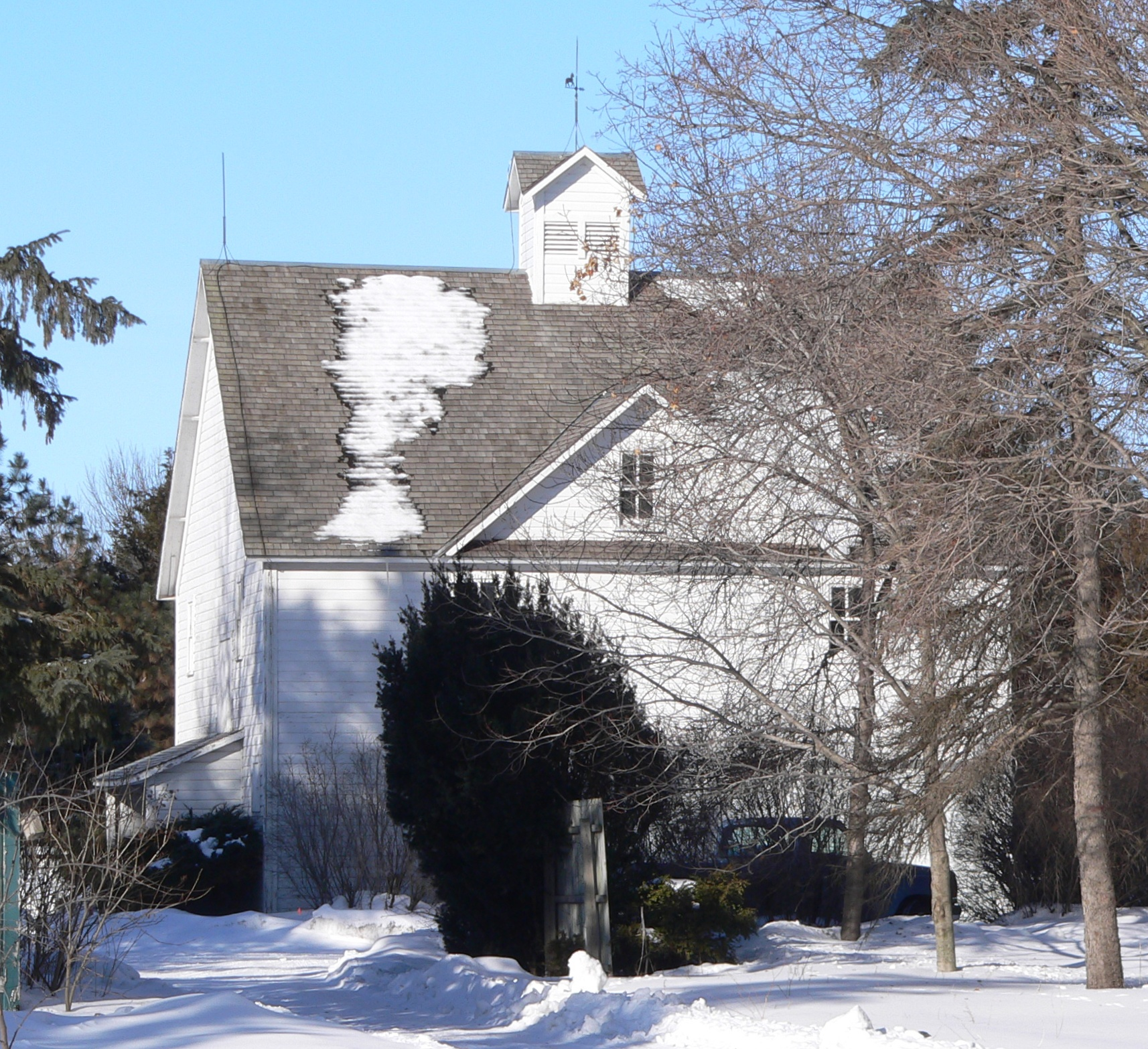 Carriage house behind John Wesley and Grace Shafer Warrick House in Meadow Grove, Nebraska; seen from the east. The Queen Anne house was built in 1903. It is listed in the National Register of Historic Places. The carriage house is included in the Register listing.